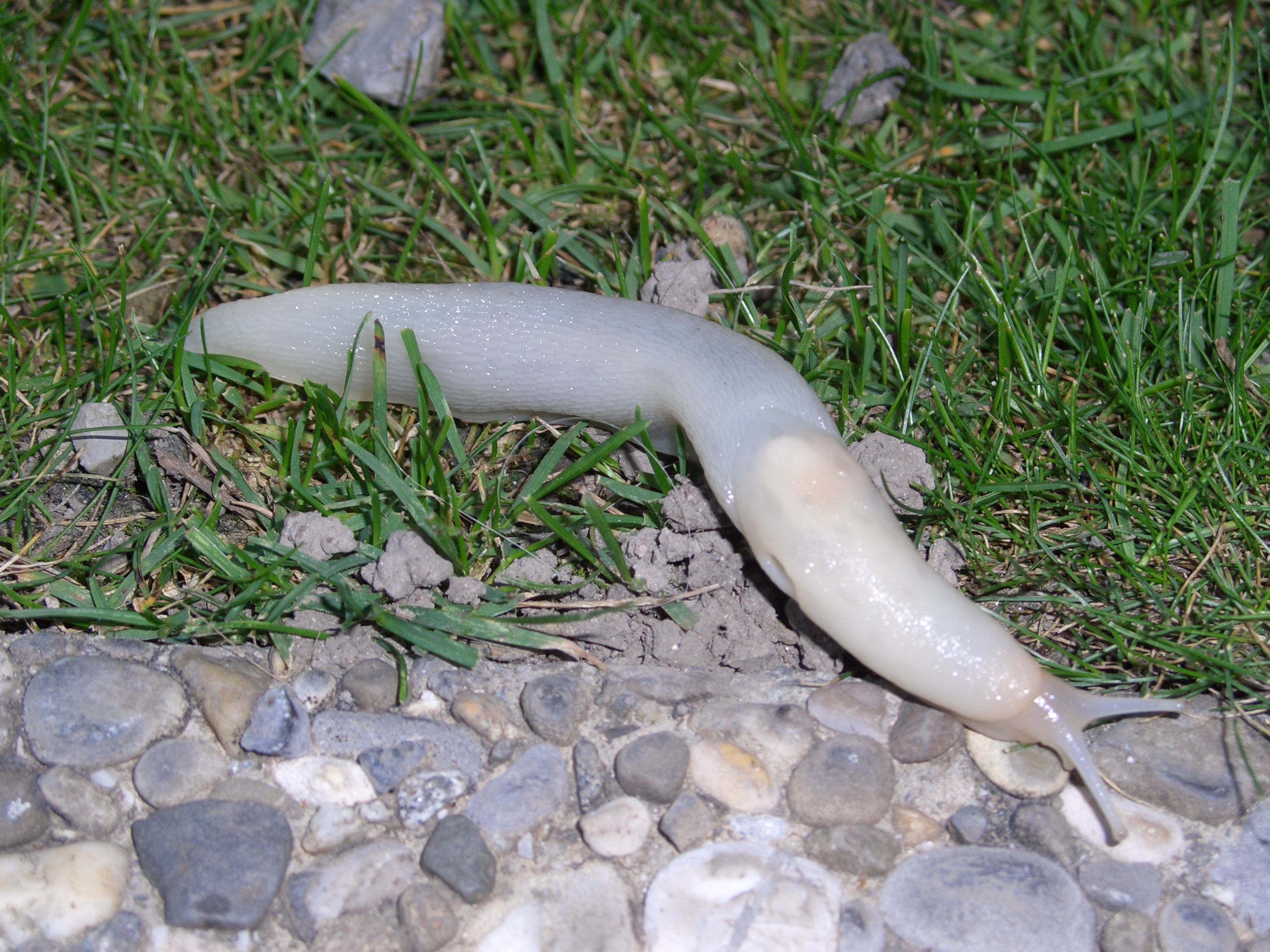 Limax maximus var. candida in Switzerland